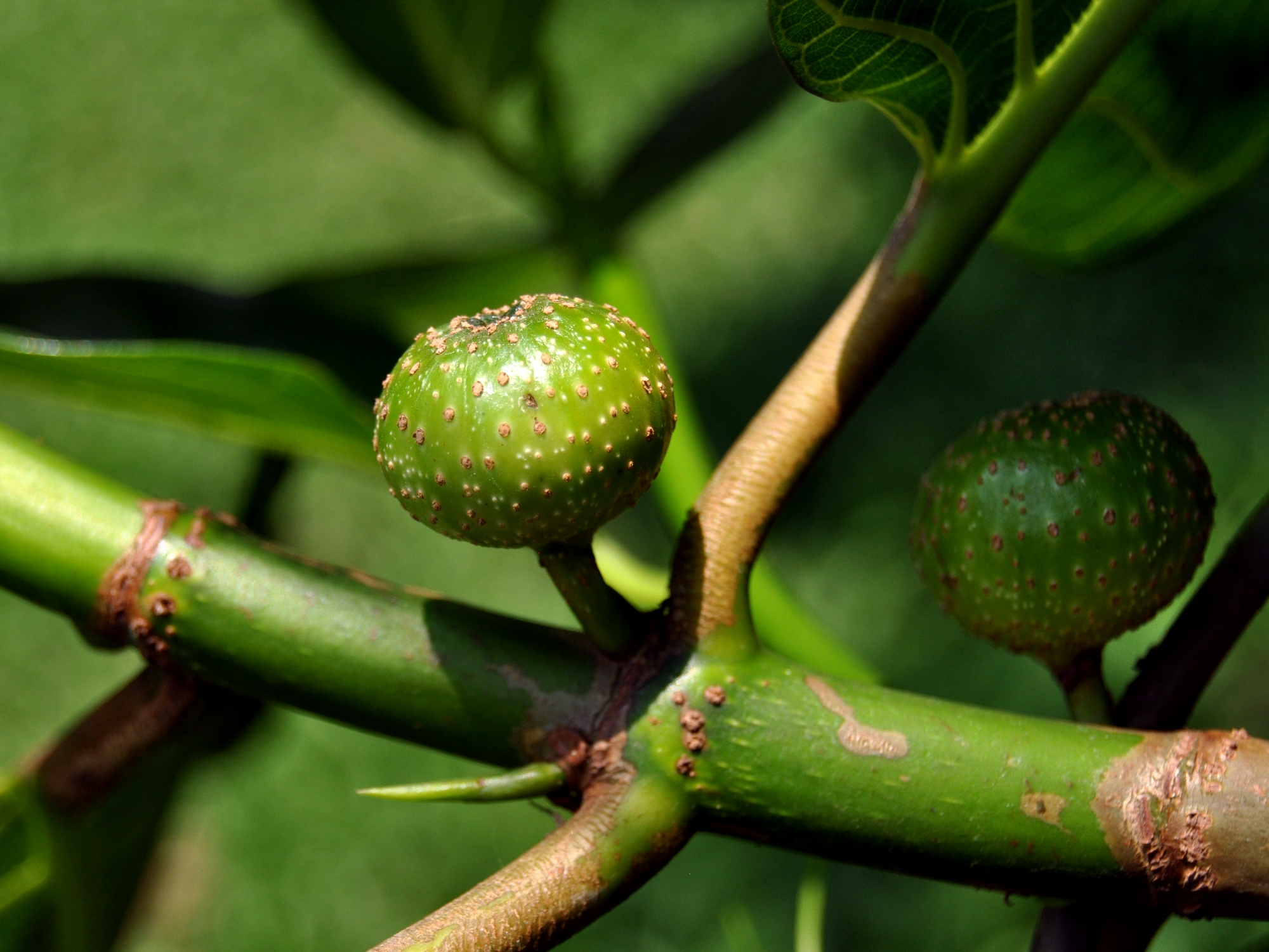 Ficus septica figs. From Bogor, West Java, Indonesia.